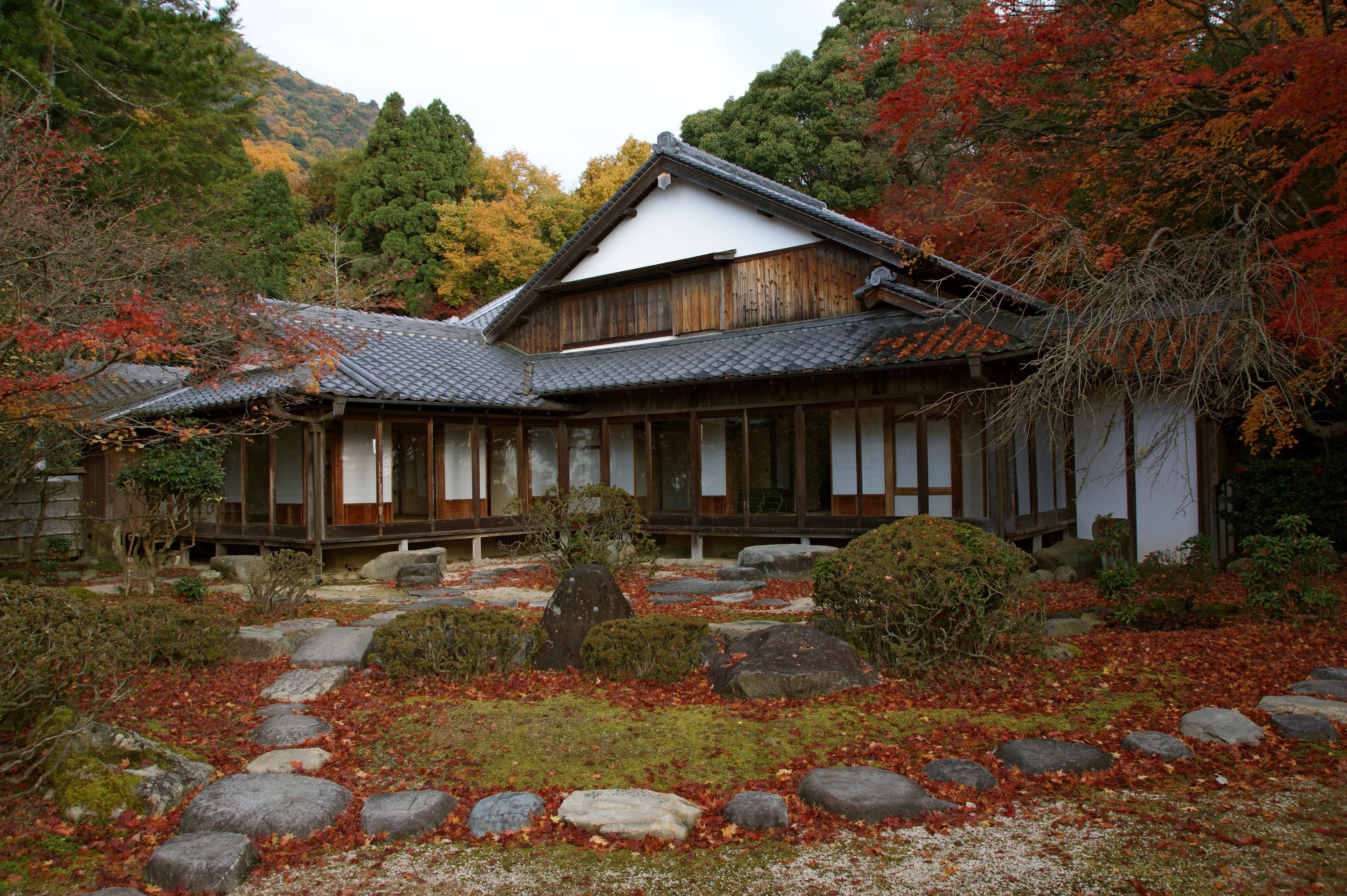 Shuentei, Tatsuno, Hyogo prefecture, Japan